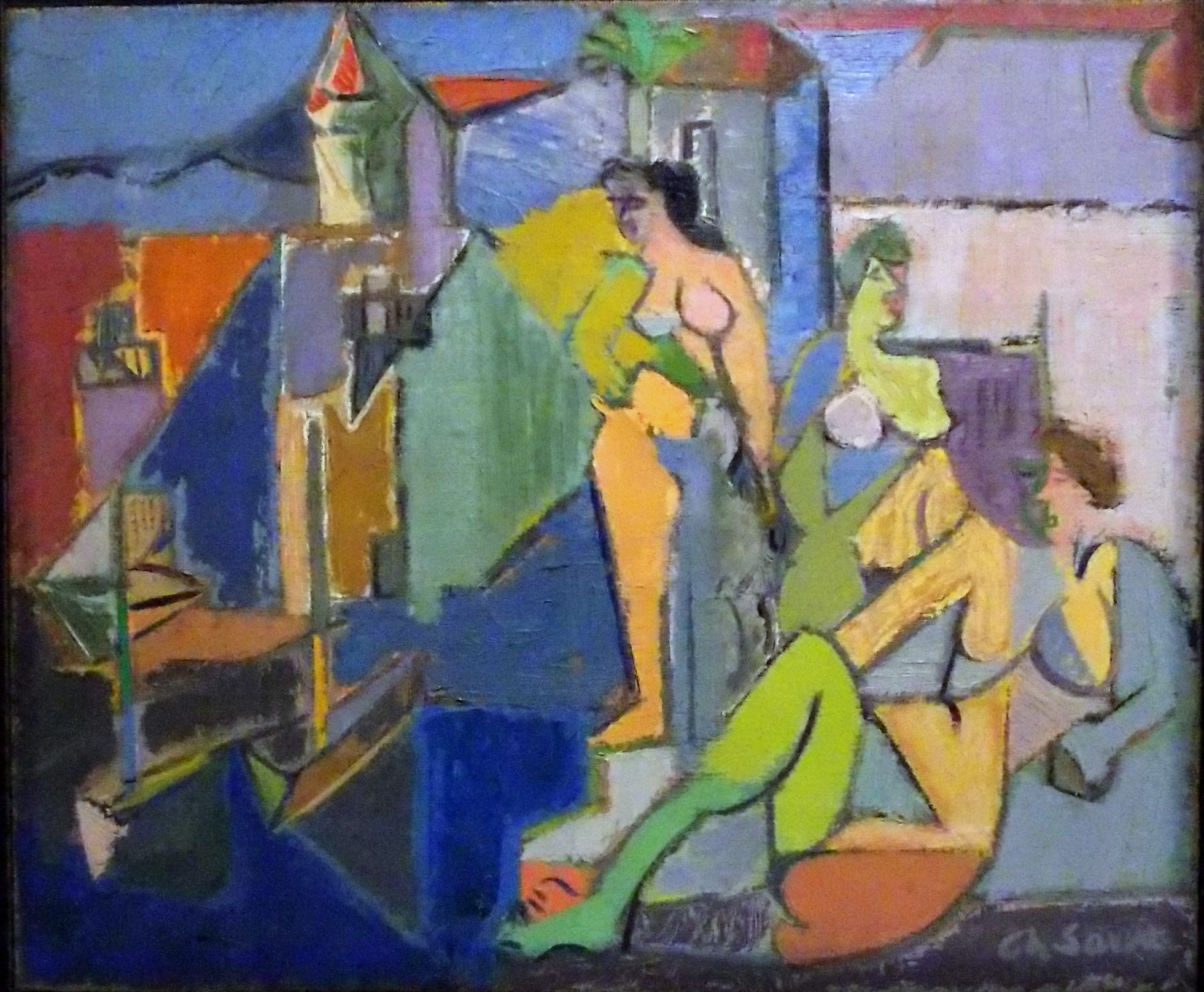 Leventis Gallery, Nicosia, Cyprus. Christoforos Savva - Bathers in Kyrenia